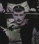 Image of Robert “Bob” Gould - Rugby union player - Newport RFC - Won 11 caps for Wales – 1 as captain vs Scot 1887. Played 1879/90-1886/7.